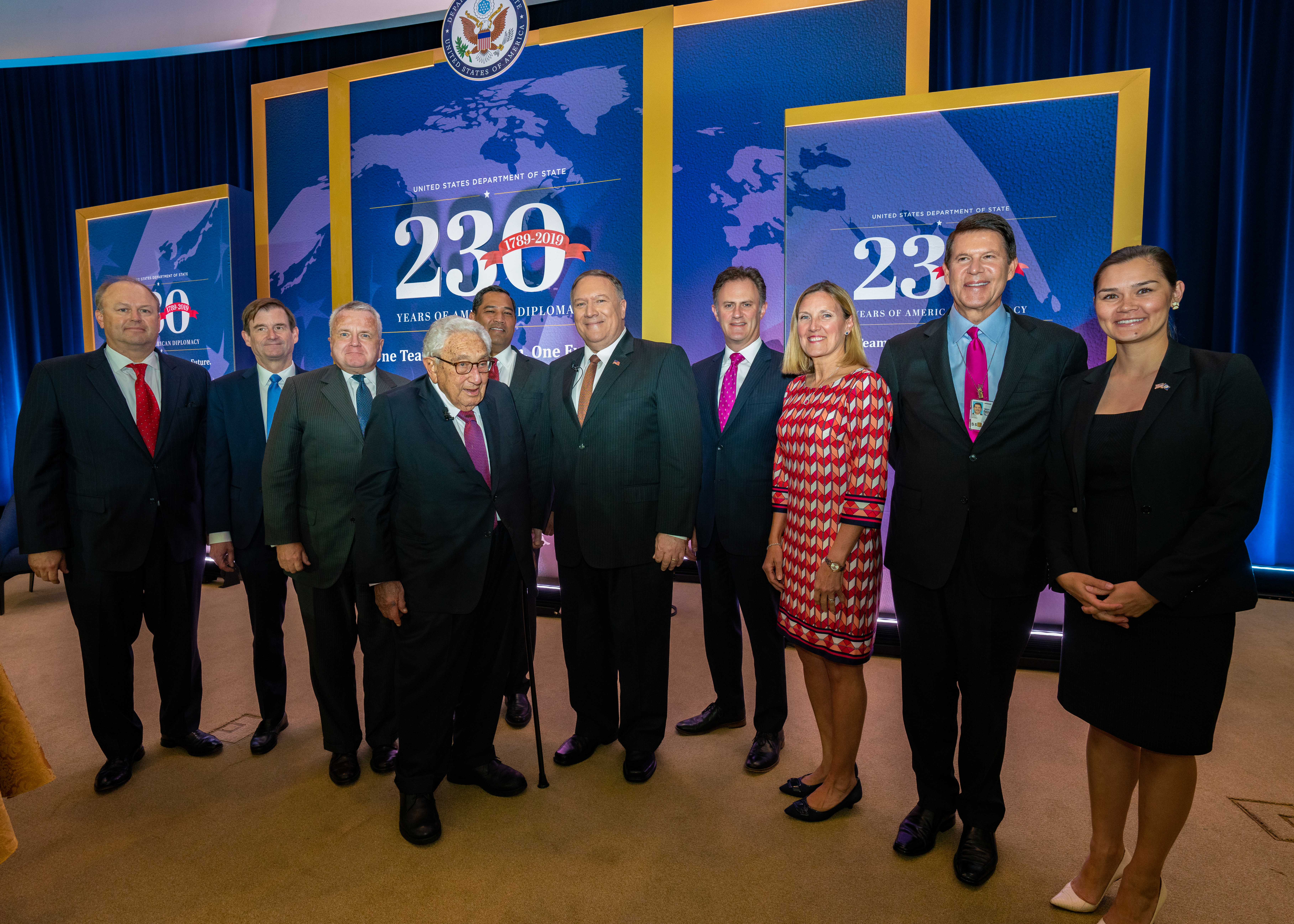 U.S. Secretary of State Michael R. Pompeo poses for a photo with Former Secretary of State Dr. Henry Kissinger and Senior Staff at the Department of State 230th Anniversary Celebration, at the U.S. Department of State in Washington, D.C., on July 29, 2019. [State Department photo by Ron Przysucha/Public Domain]